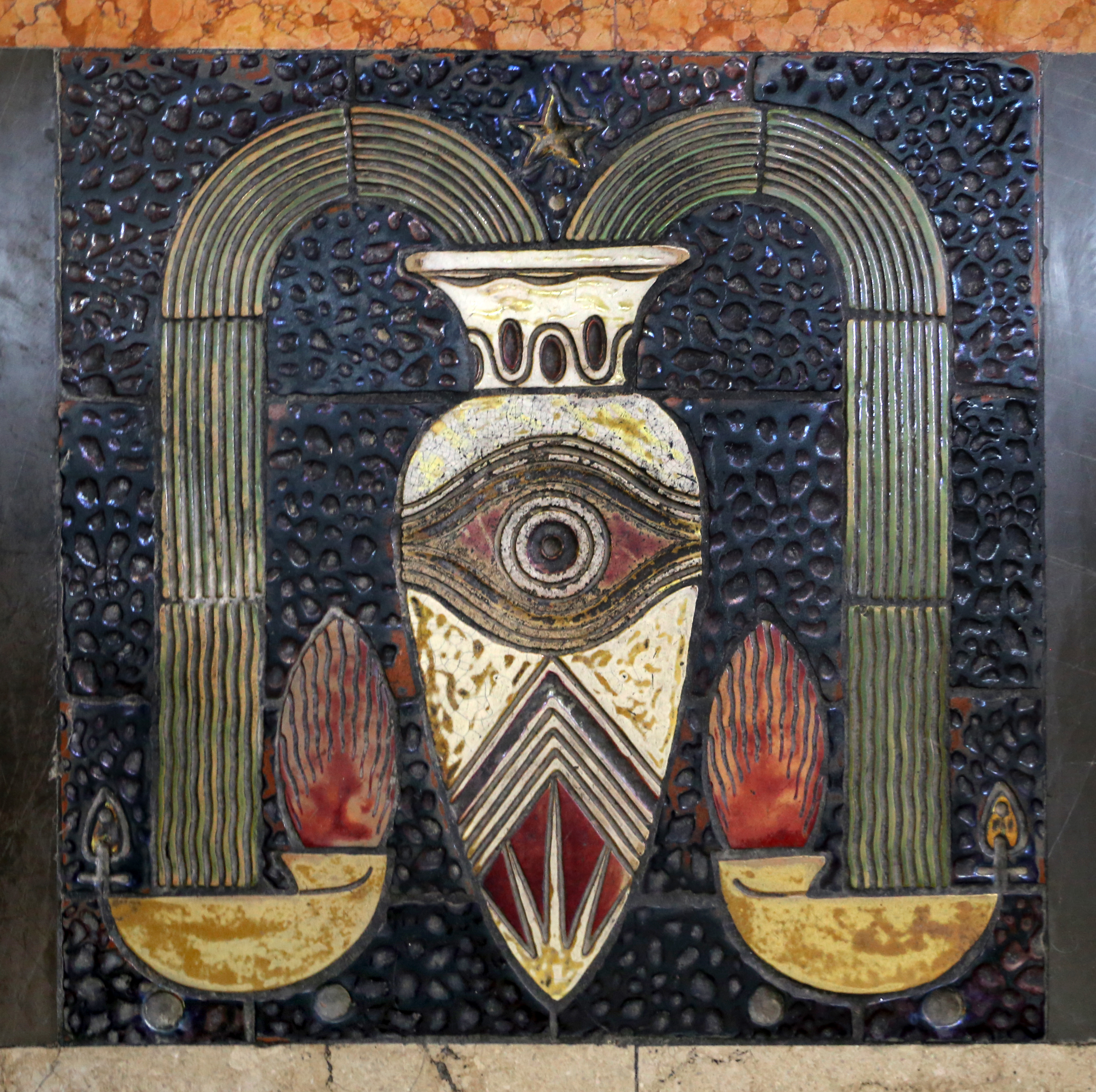 Padiglione delle Feste (Castrocaro Terme) - Atrium